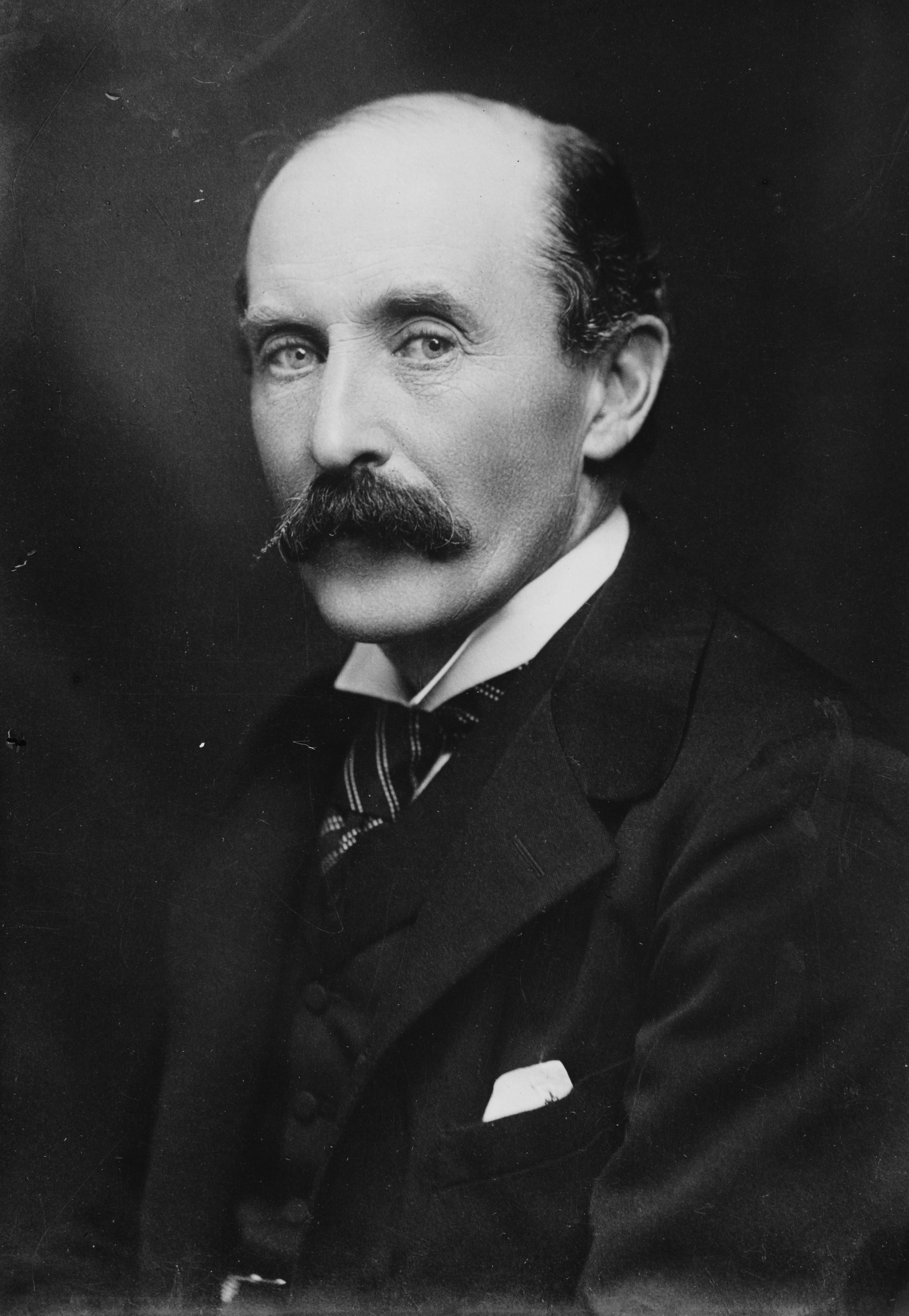 Sir. A. Nicholson, British Ambassador to Russia, portrait